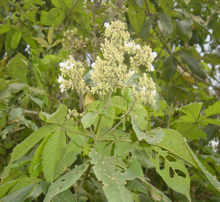 Vitex pinnata